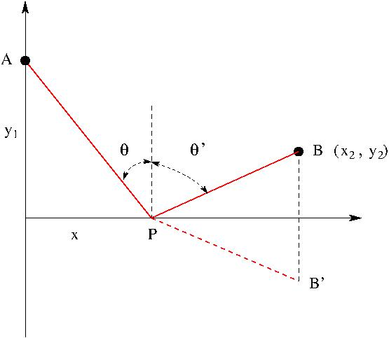 Reflection of light from Fermat's principle